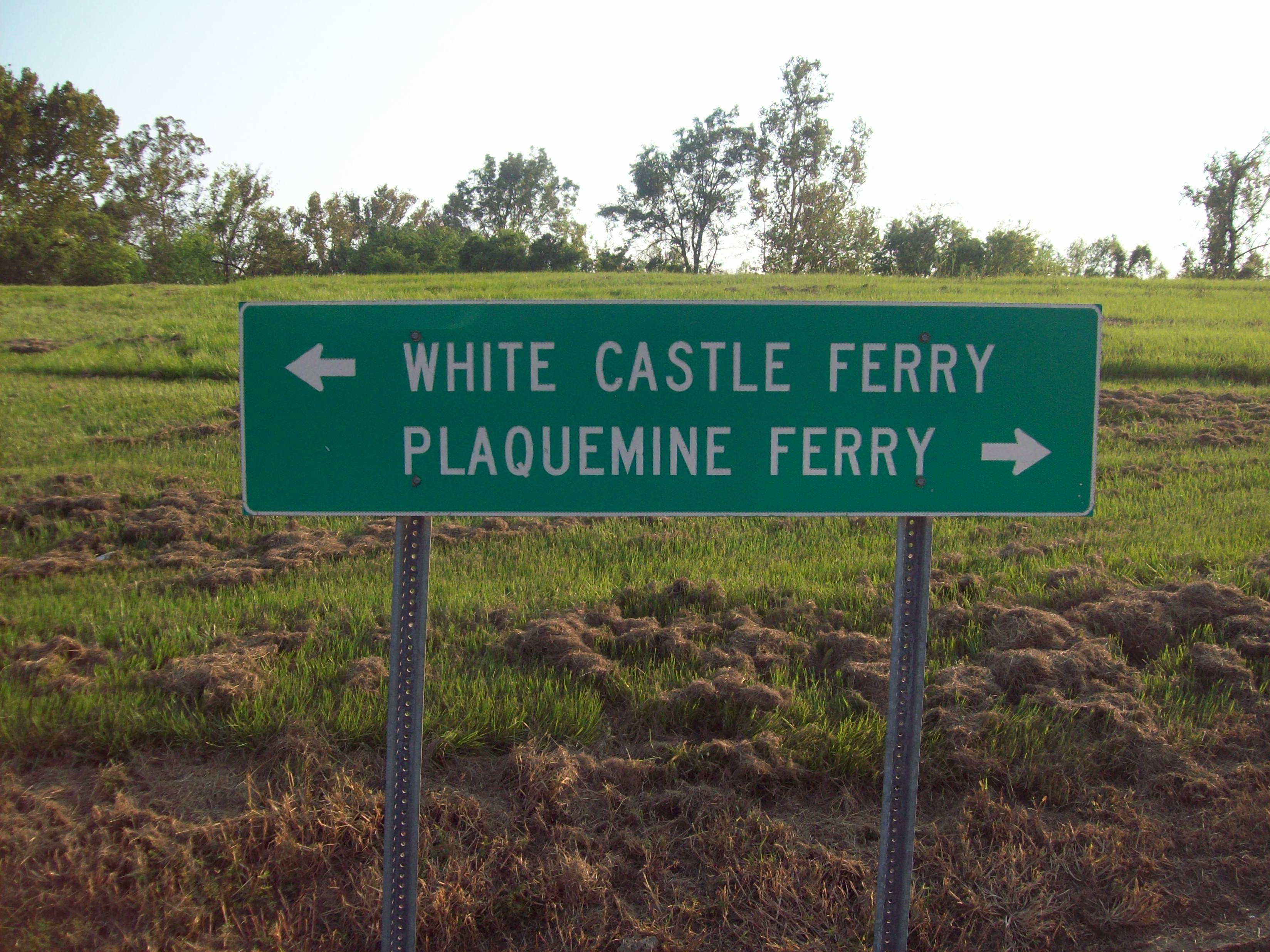 Sign along LA 75 at LA 327 showing the two closest ferries.